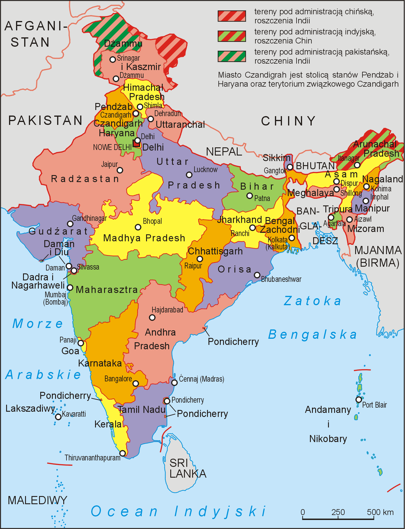 current districts of India